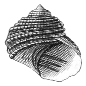 Drawing of apertural view of a shell of Cremnoconchus syhadrensis